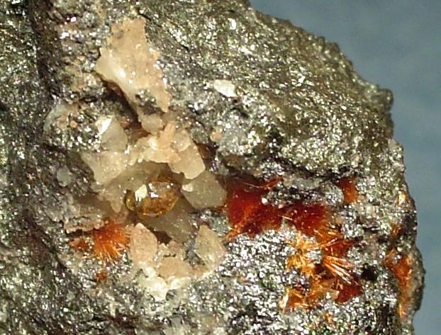 Stottite, Ludlockite, Germanite Locality: Tsumeb Mine (Tsumcorp Mine), Tsumeb, Otjikoto (Oshikoto) Region, Namibia (Locality at ) Size: 4.5 x 2.1 x 2.0 cm. Stottite and ludlockite are two of the very rare mineral species for which the Tsumeb Mine is renowned . It is also the Type Locality for both species. The rich piece of rare germanite ore hosts a small vug that is lined with bundles of brilliant, reddish-orange ludlockite hairs and a 2 mm, gemmy, brown, tetragonal stottite crystal. This crystal is brilliantly lustrous and easily eye visible. This is an excellent combination of the rarities and came from the one-time find at the 30 Level. Well-Crystallized Stottite is unique to Tsumeb. Ex. Rob Smith Collection.